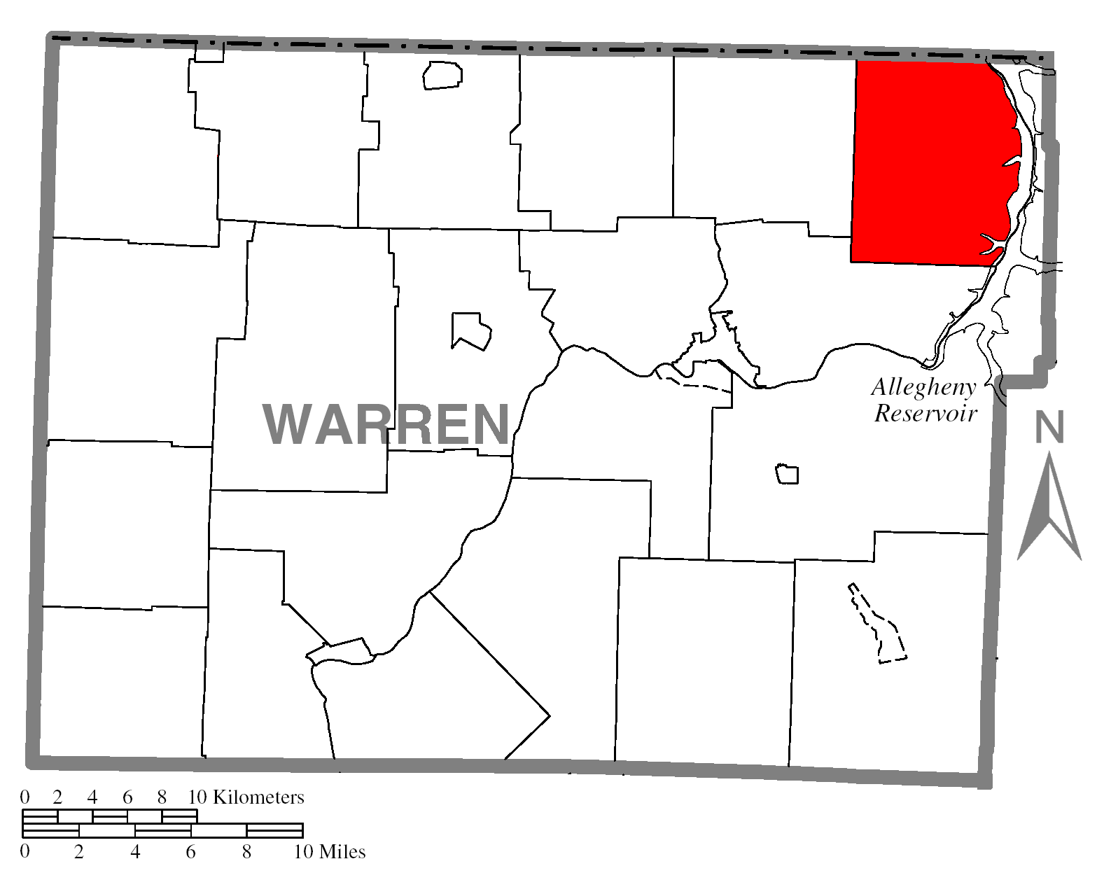 Map of Warren County higlighting Elk Township.